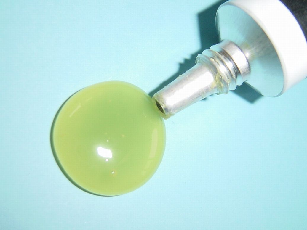 Adhesives,Polychloroprene rubber adhesives